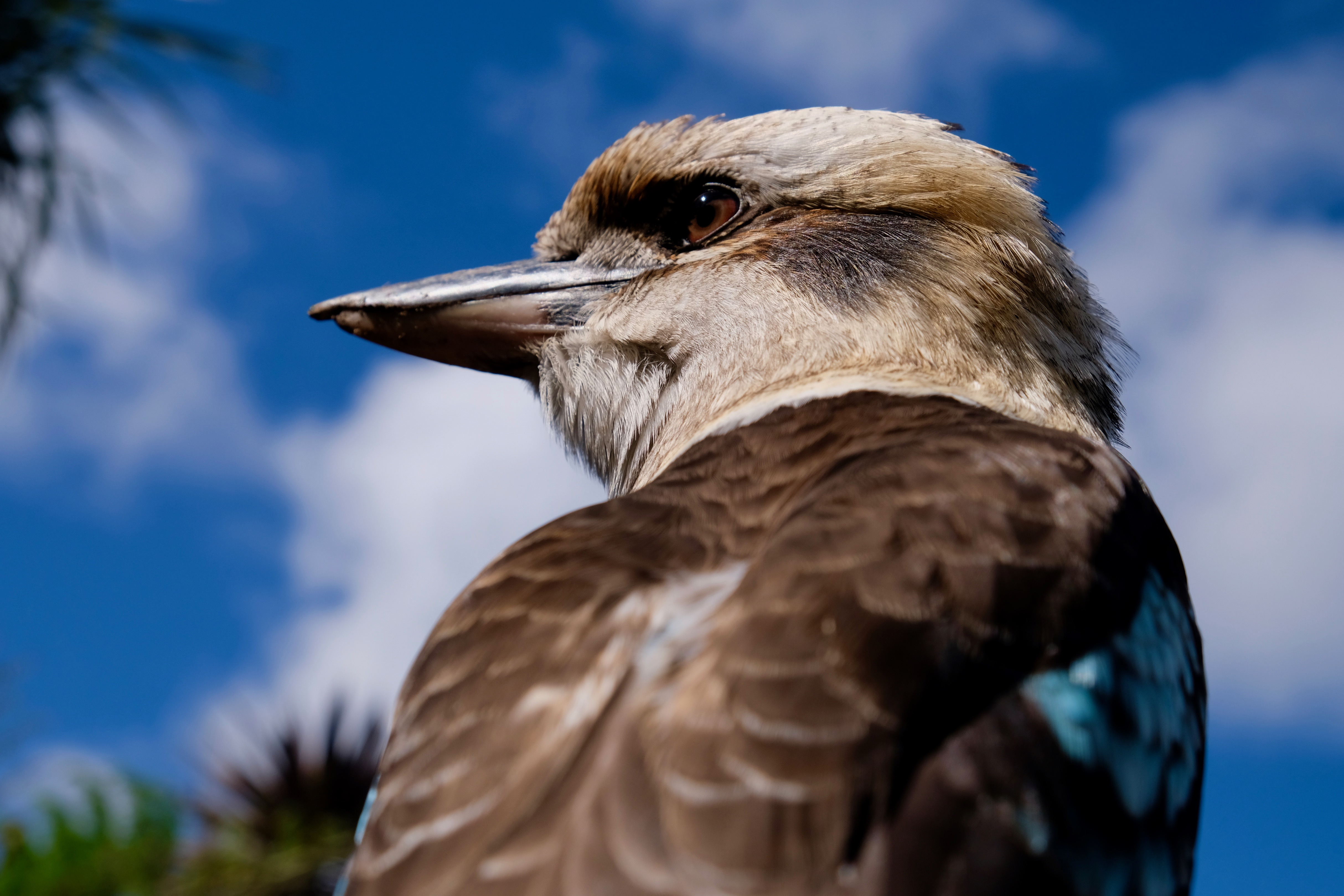 This photo was taken near the Gunner's Barracks in Sydney, Australia.